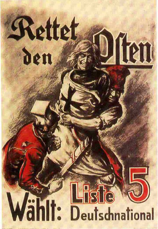 Propaganda poster of the Deutschnationale Volkspartei (German National People's Party, not the Nazi Party) "Save the East" for 1920 elections. It depicts a Teutonic Knight threatened by a Pole and a socialist.